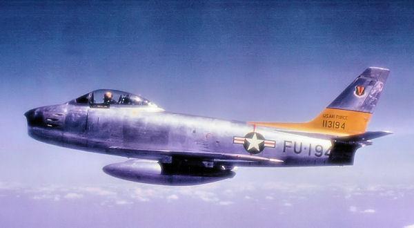 F-86Fs of the 527th Fighter-Bomber Squadron - 86th FBW - Ramstein AB Germany